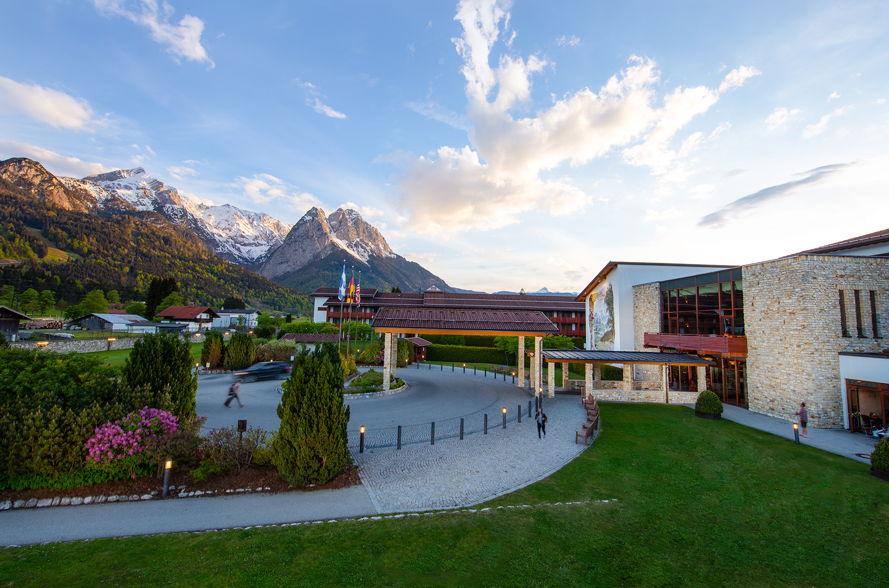 The Edelweiss Lodge and Resort in Garmisch, Germany (Photo Credit: U.S. Army photo)